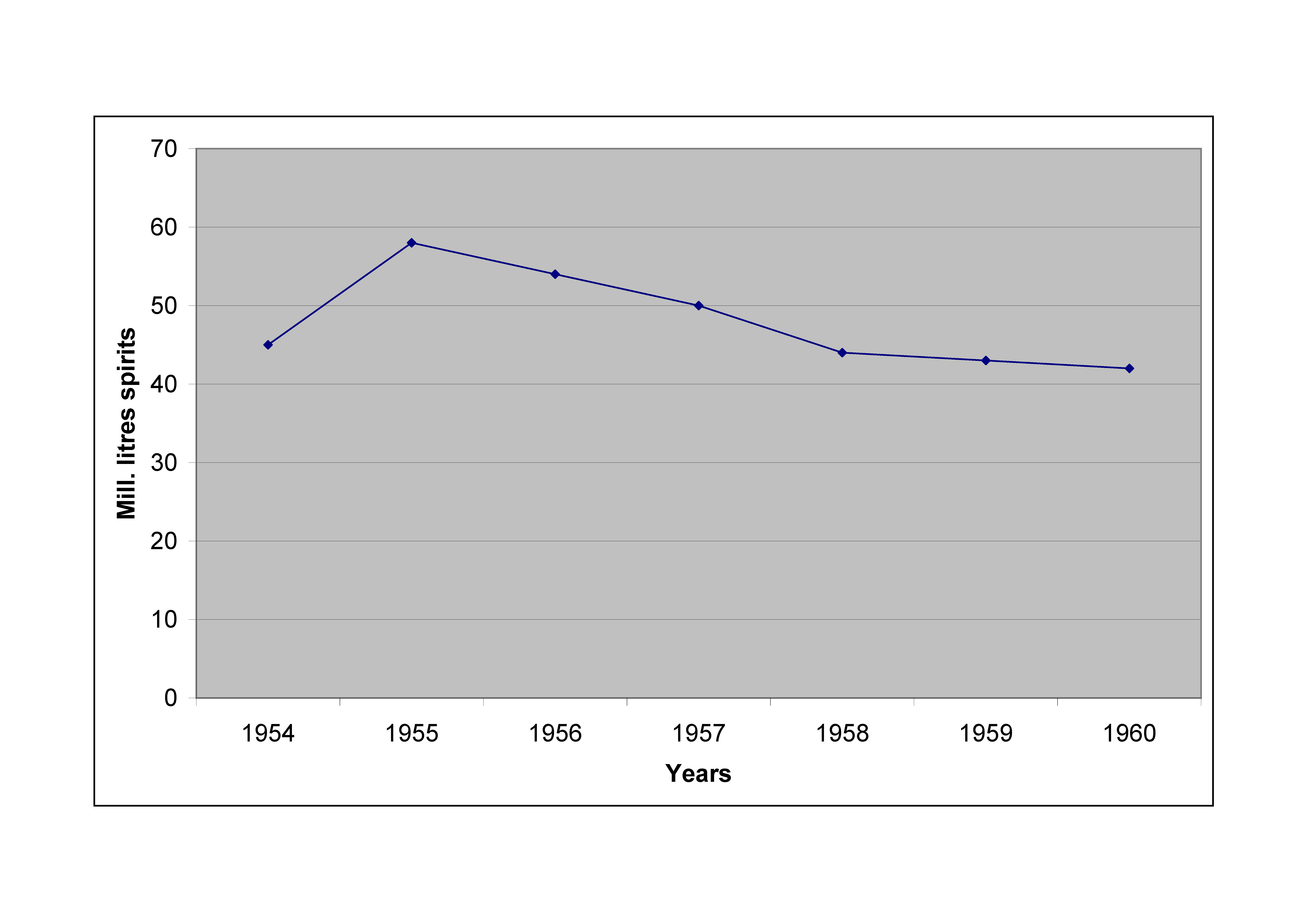 Sales of spirits in Sweden 1954 - 1960 (derivated from the book "1955 1965 10 år utan motbok")